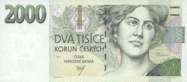 Obverse of Czech koruna two-thousand crowns bill.